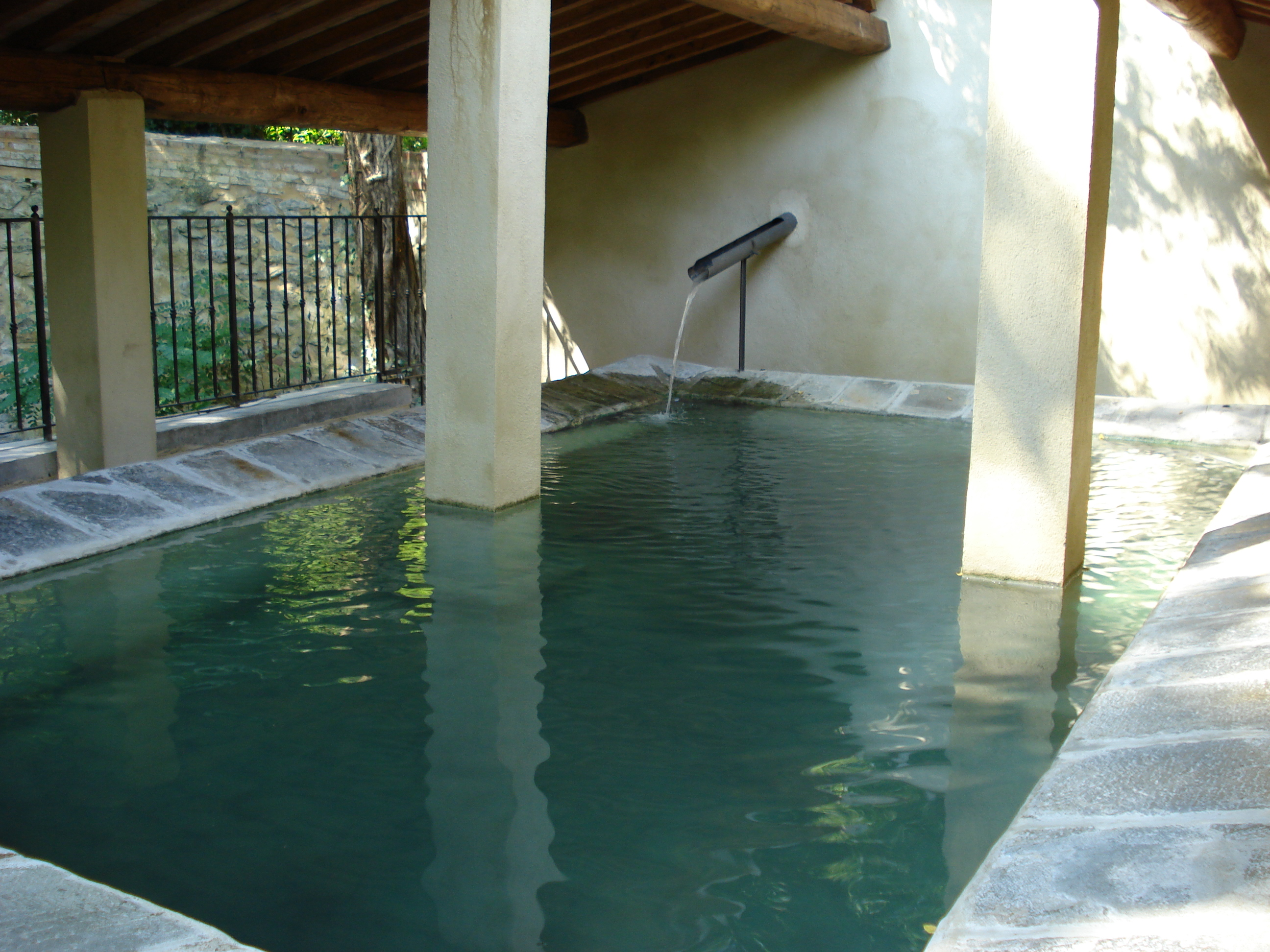 Sasso Pisano